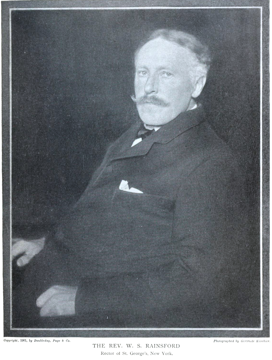 William Stephen Rainsford (October 30, 1850 − December 17, 1933)